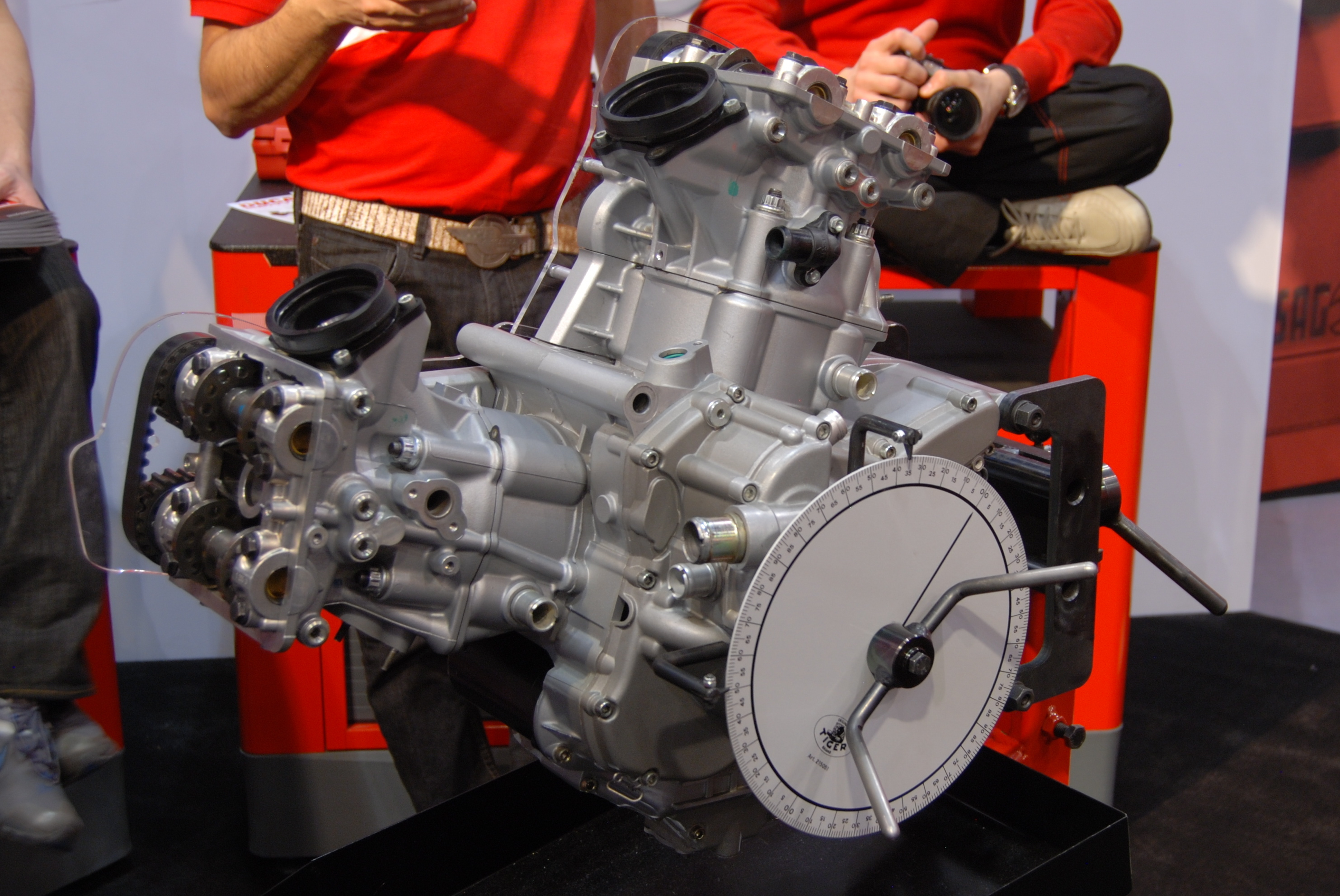 Ducati Desmoquattro engine at the 2009 Seattle International Motorcycle Show.